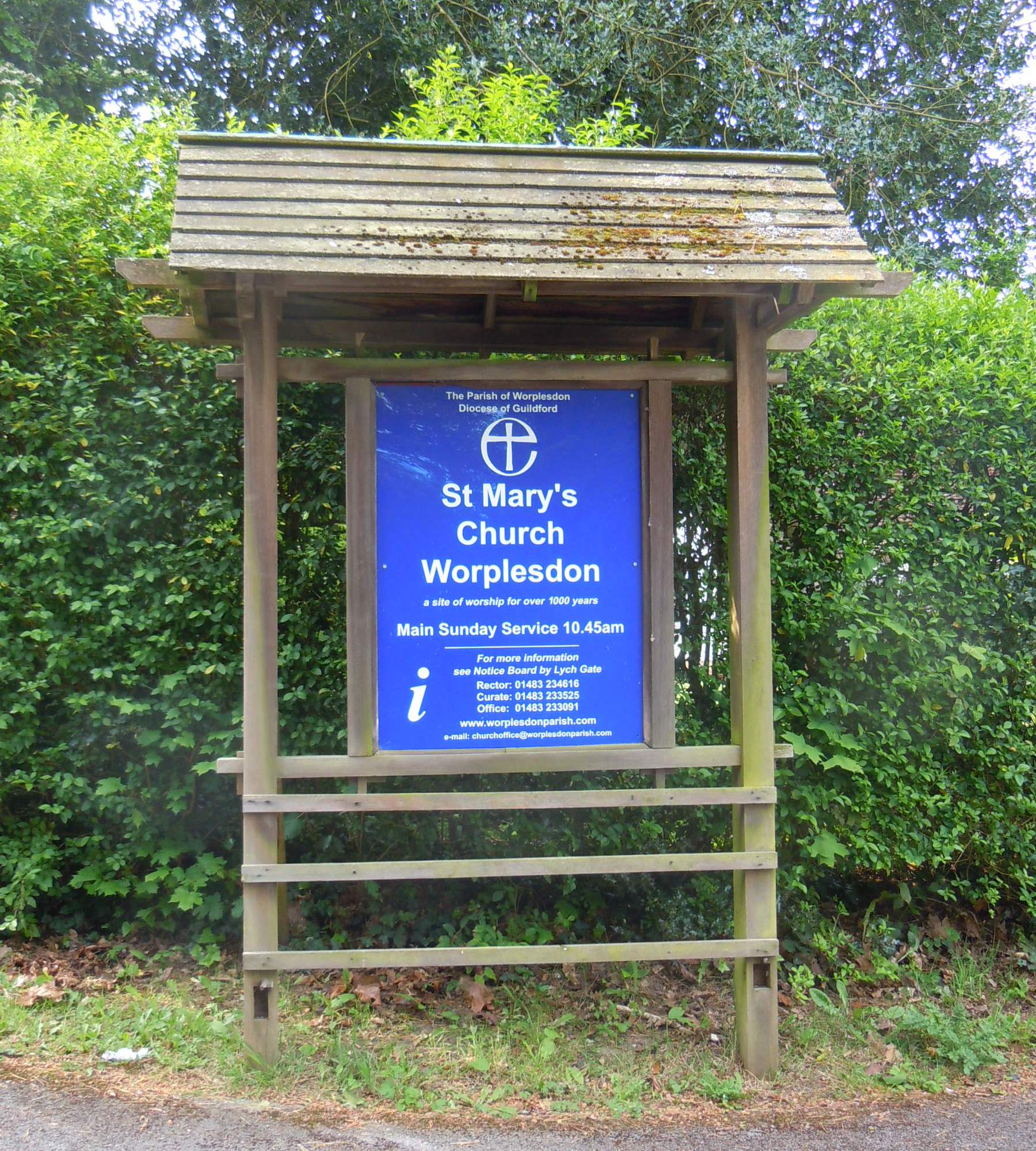 St Mary the Virgin's Church, Worplesdon Road, Worplesdon, Borough of Guildford, Surrey, England.